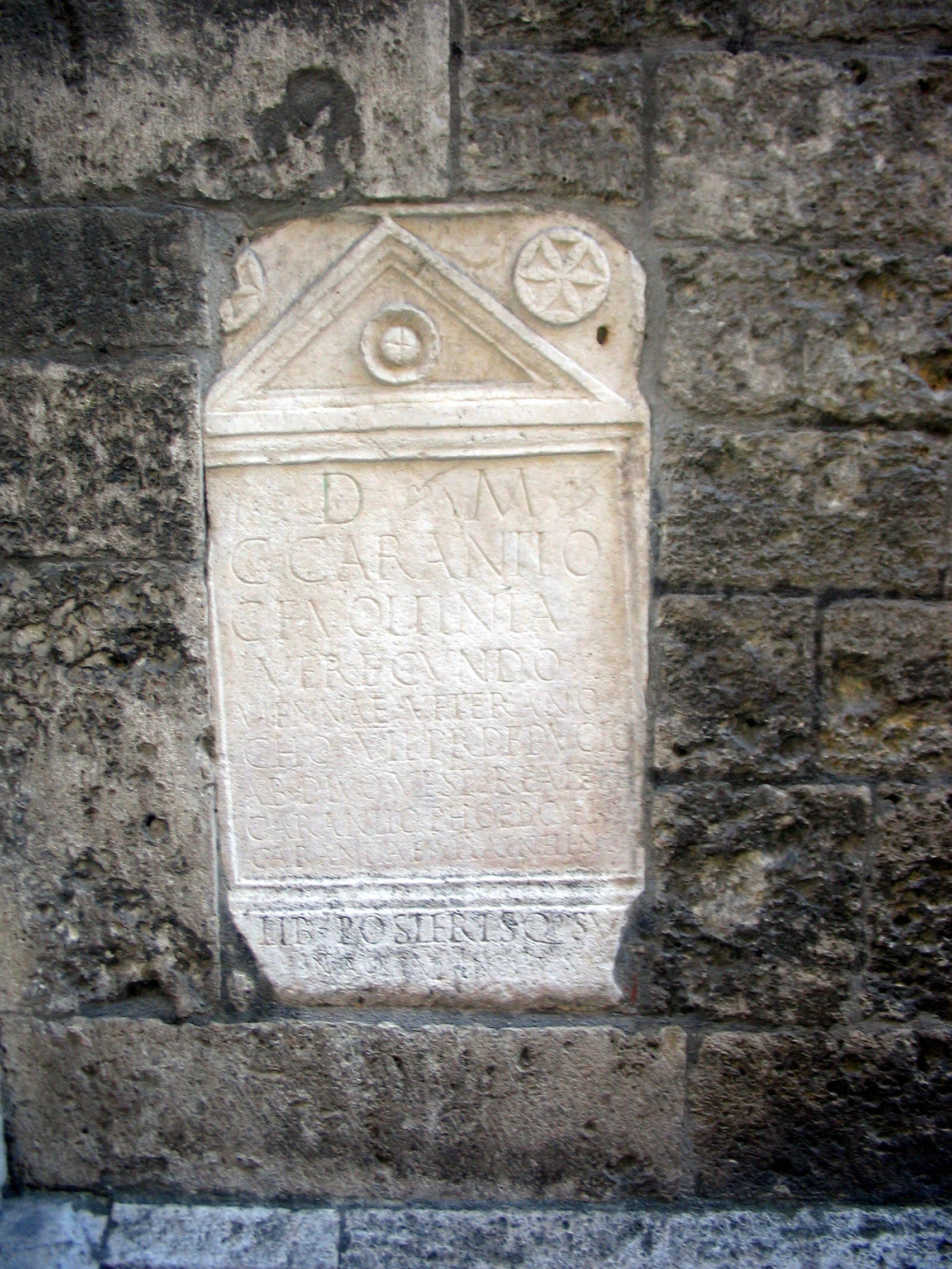 San Pietro (ex Church) - Roman stele - Rieti, Lazio, Italia